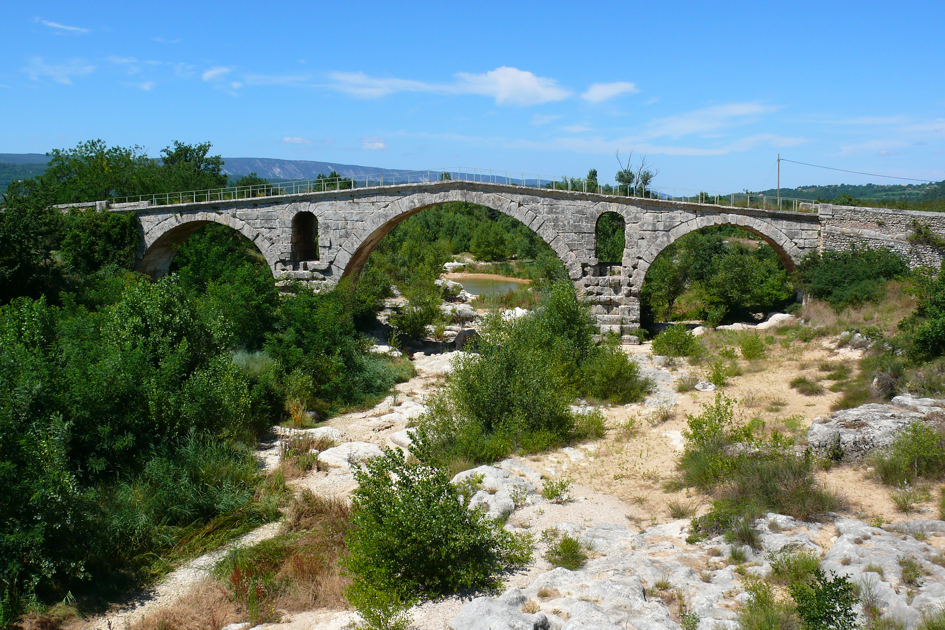 The Roman Pont Julien in Apt, southern France.